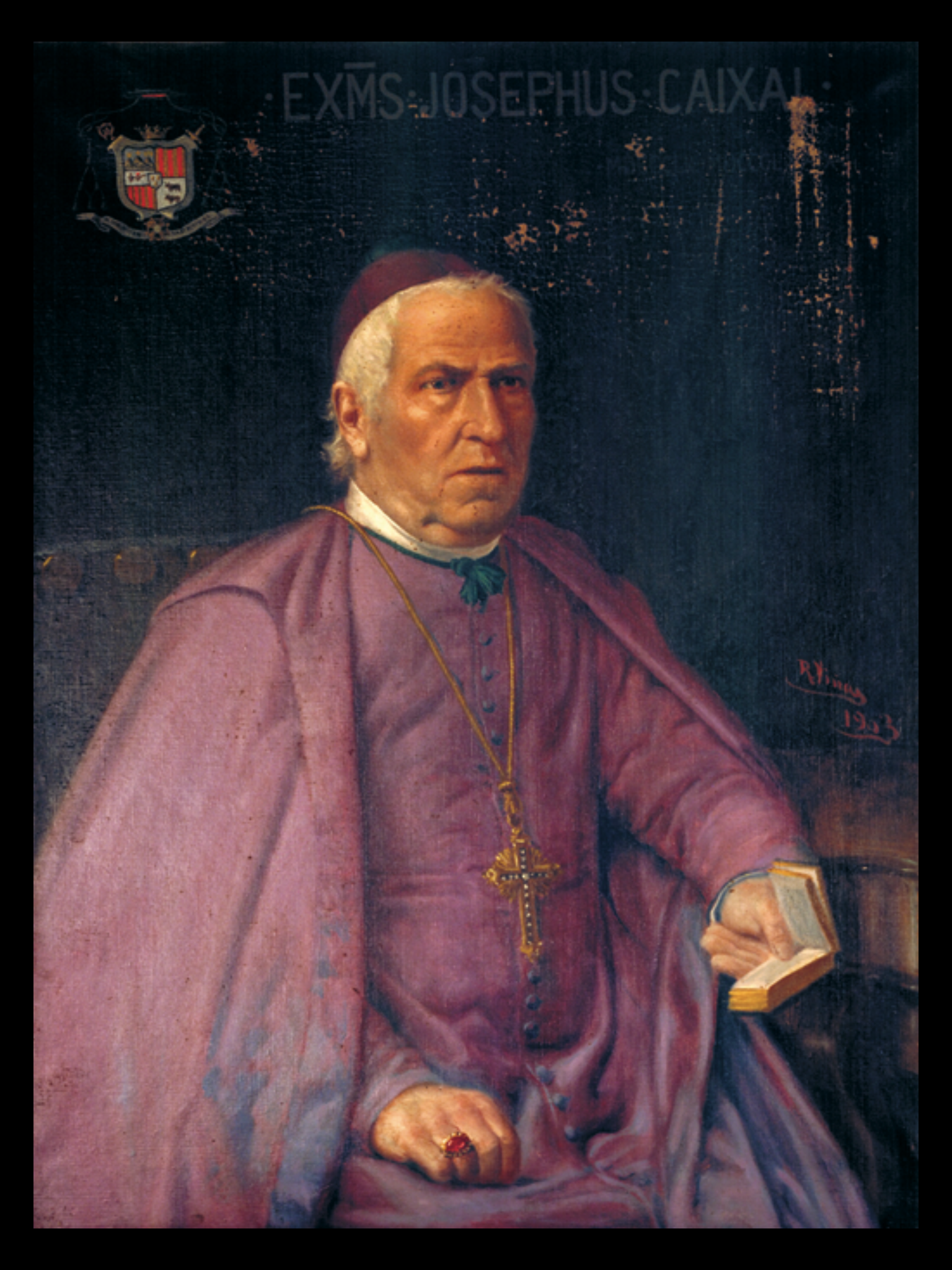 Josep Caixal i Estrade (1803-1879), Bishop of Urgell from 1853 until his death in Rome in 1879 and co-prince of Andorra during the New Reform period.